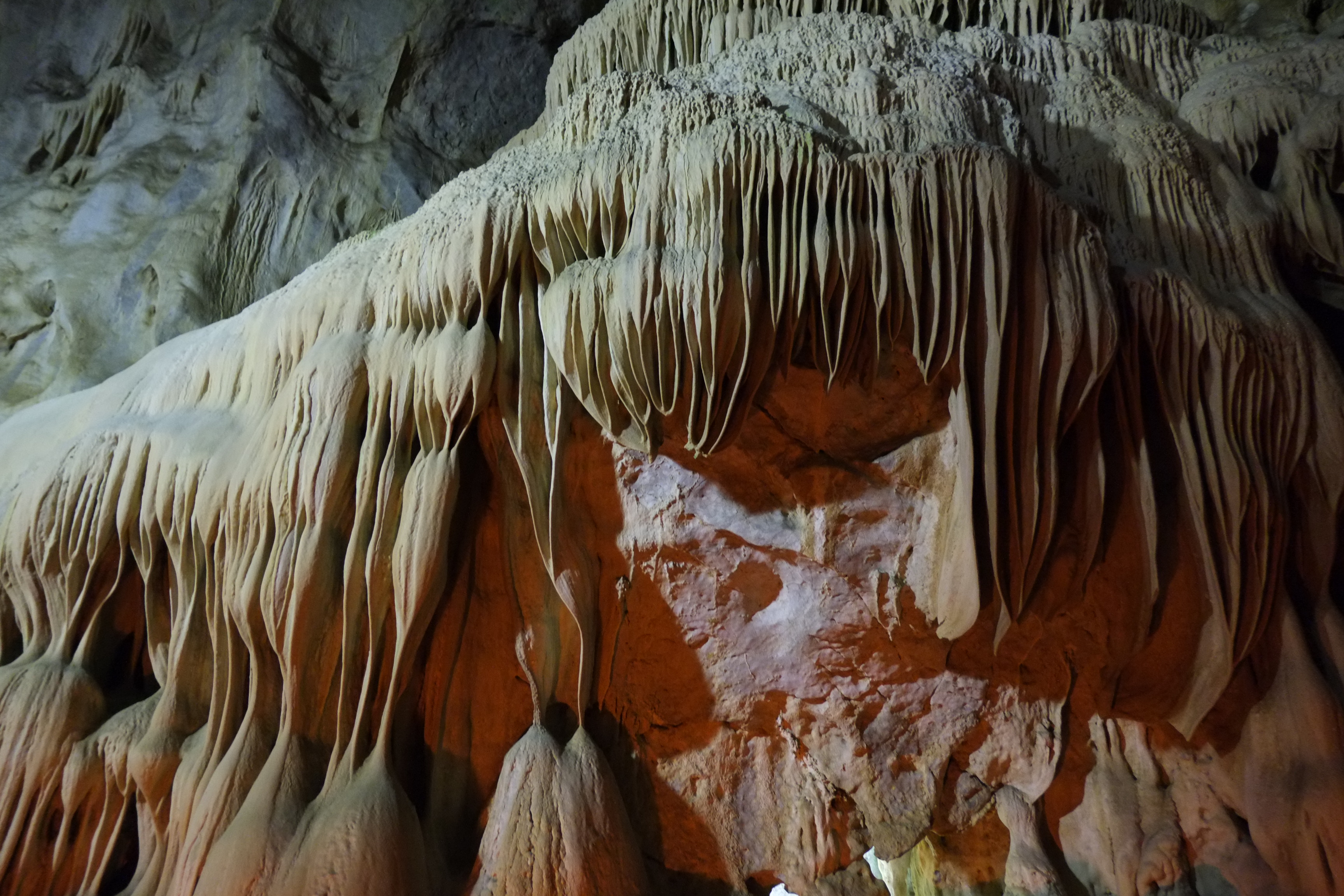 lake cave